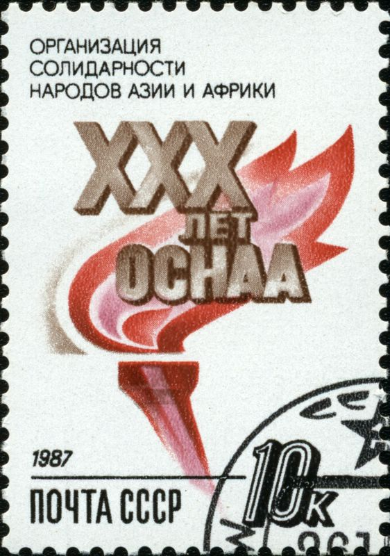 A USSR stamp, 30th Anniversary of Asia-Africa Solidarity Organization. Date of issue: 26th December 1987. Designer: Yury Artsimenev Michel catalogue number: 5785. 10 K. multicoloured. Torch and anniversary text.